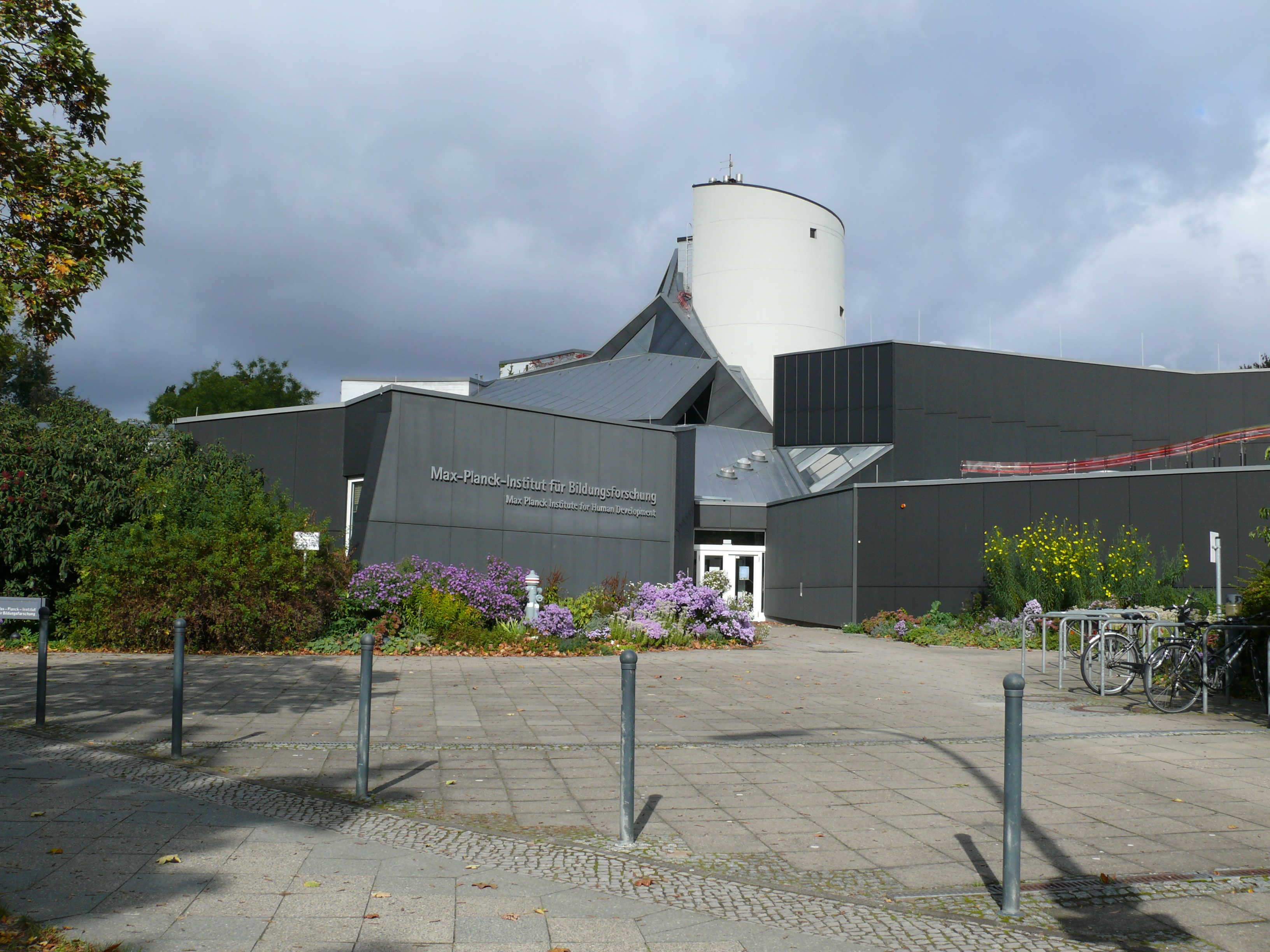 Berlin-Wilmersdorf Lentzeallee Max-Planck-Institut für Bildungsforschung. Es wurde 1972–74 von Hermann Fehling und Daniel Gogel errichtet.